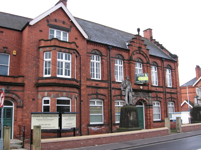 Chesterfield - Derbyshire Miners Association offices These offices, on Saltergate, now house a solicitor and physiotherapy practice.